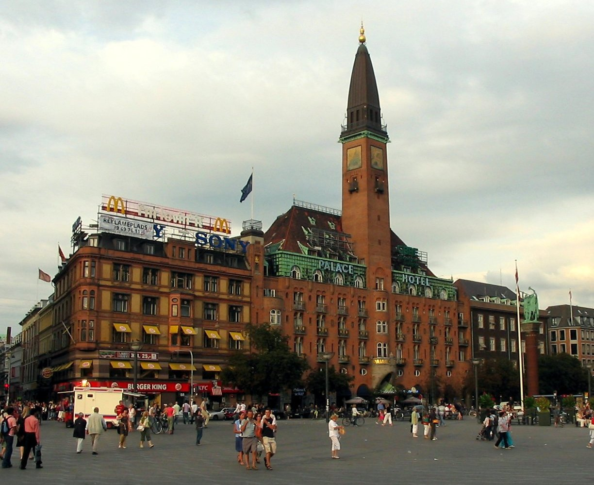 Palace Hotel in Copenhagen